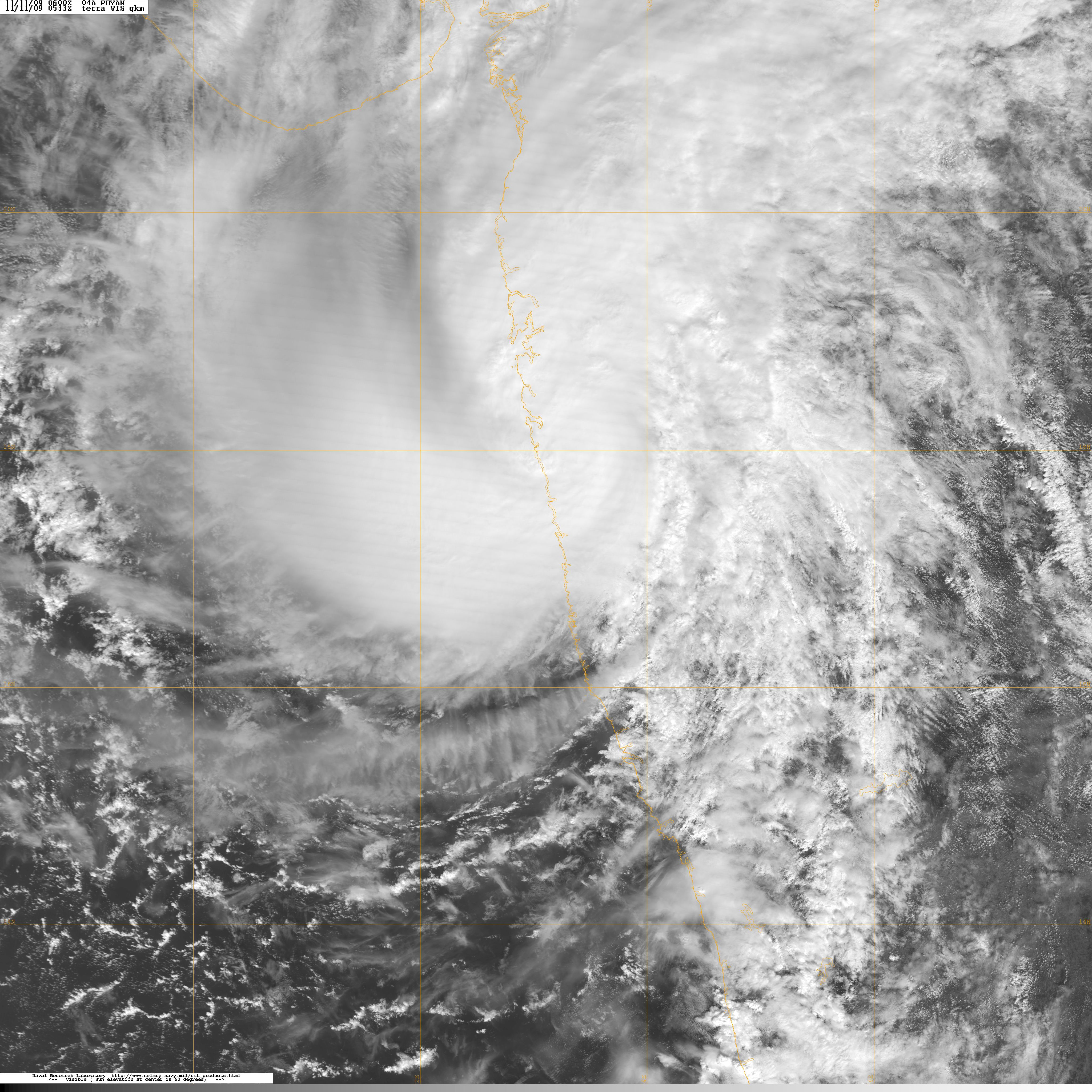 Cyclonic Storm Phyan (04A) near landfall in India on November 11, 2009.